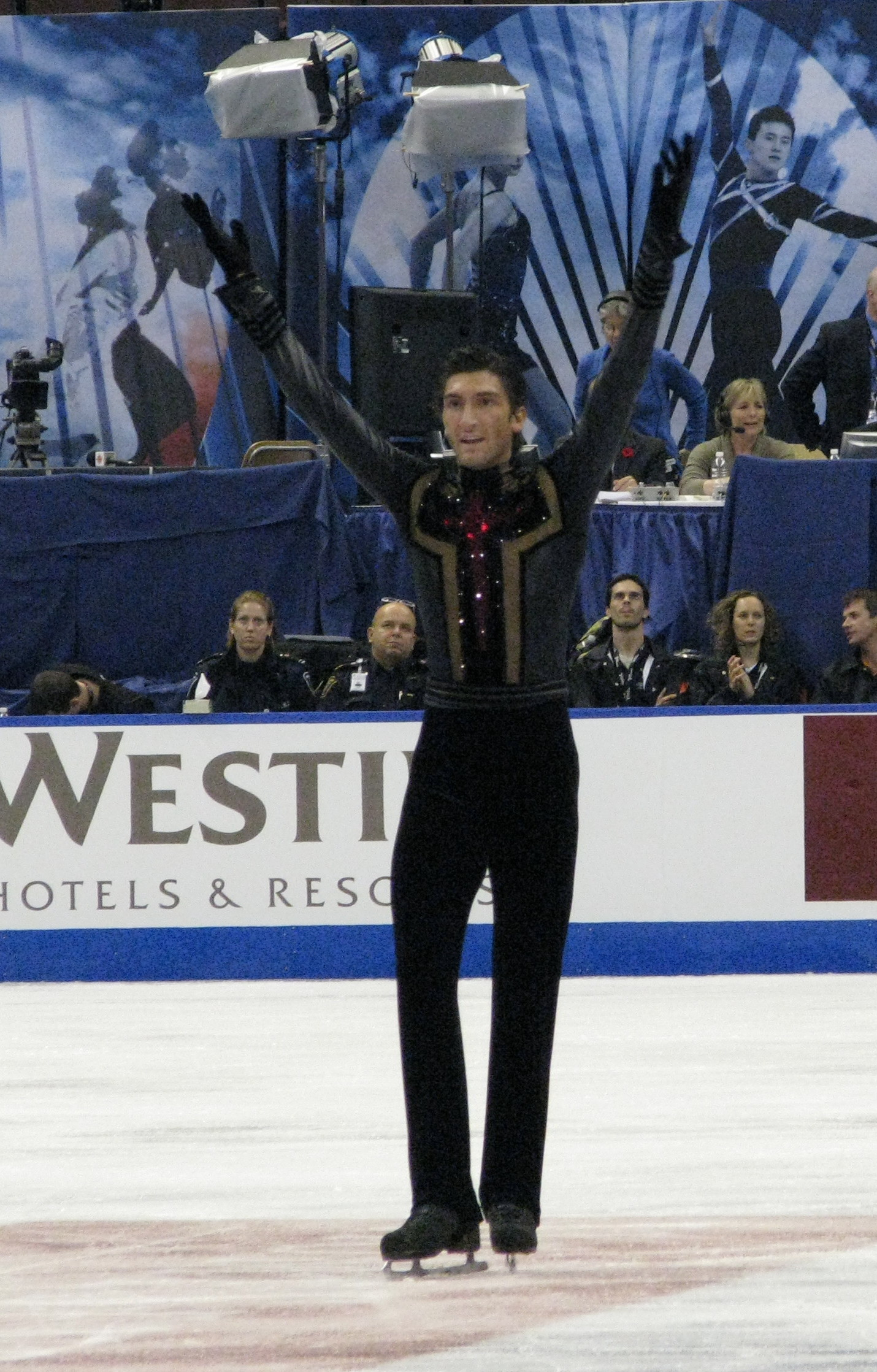 Evan Lysacek competes his short program at the 2008 Skate Canada in Ottawa, Ontario, Canada.